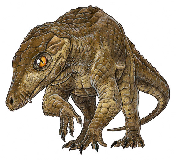 A painting depicting Araripesuchus patagonicus